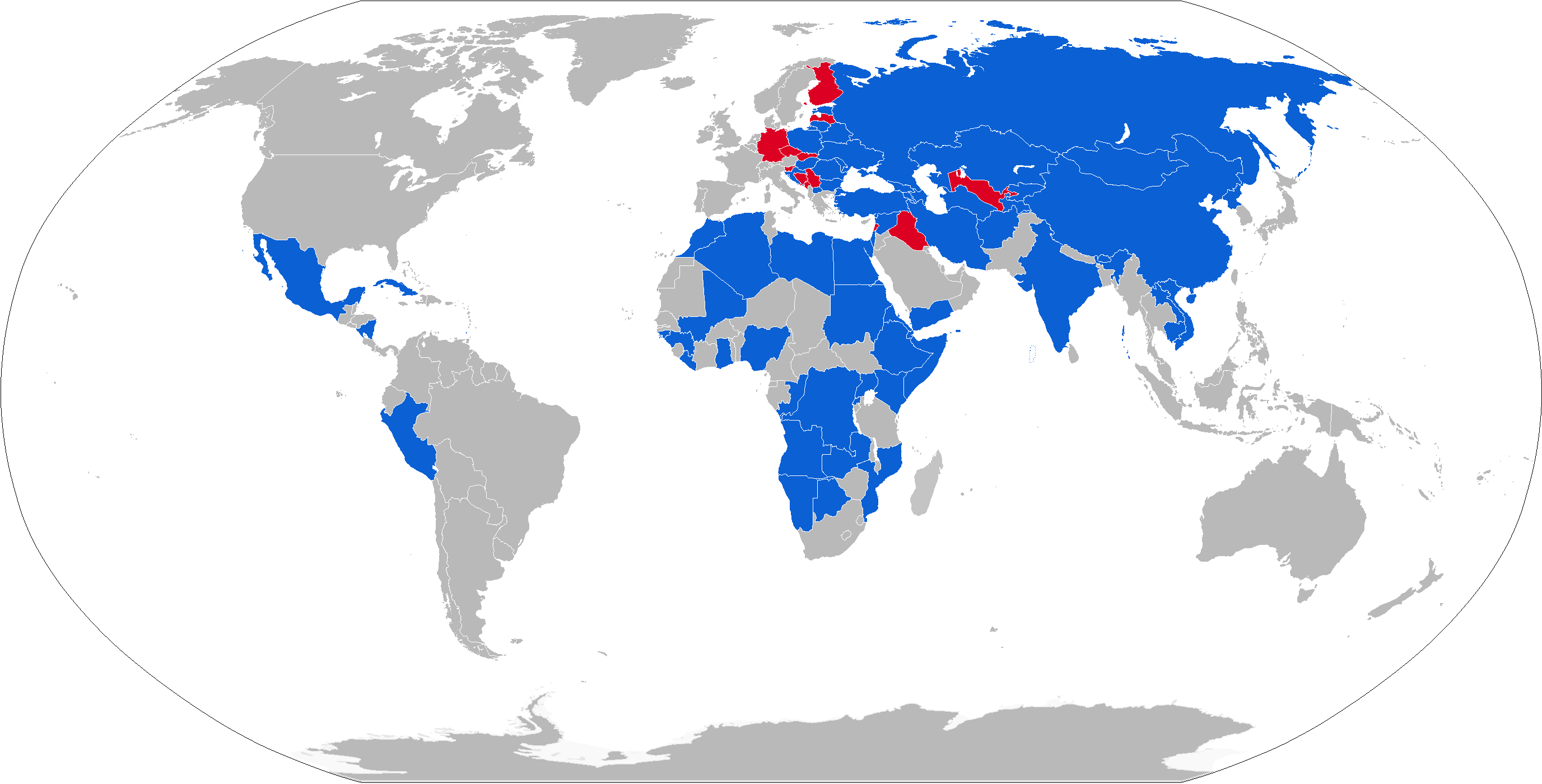 Map of BTR-60 operators in blue with former operators in red